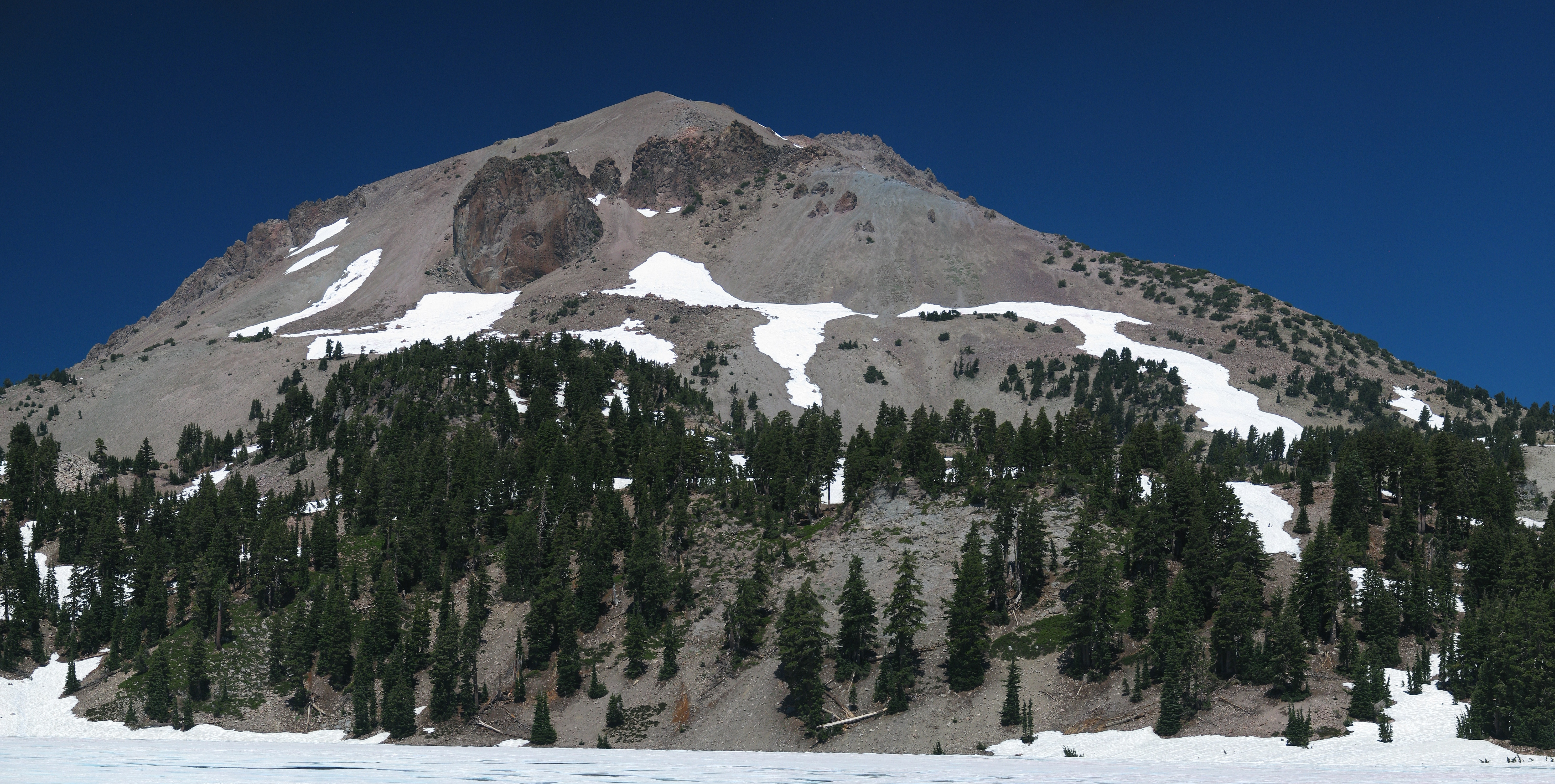 Lassen Peak as seen from Lake Helen, Lassen Volcanic National Park,CA, USA